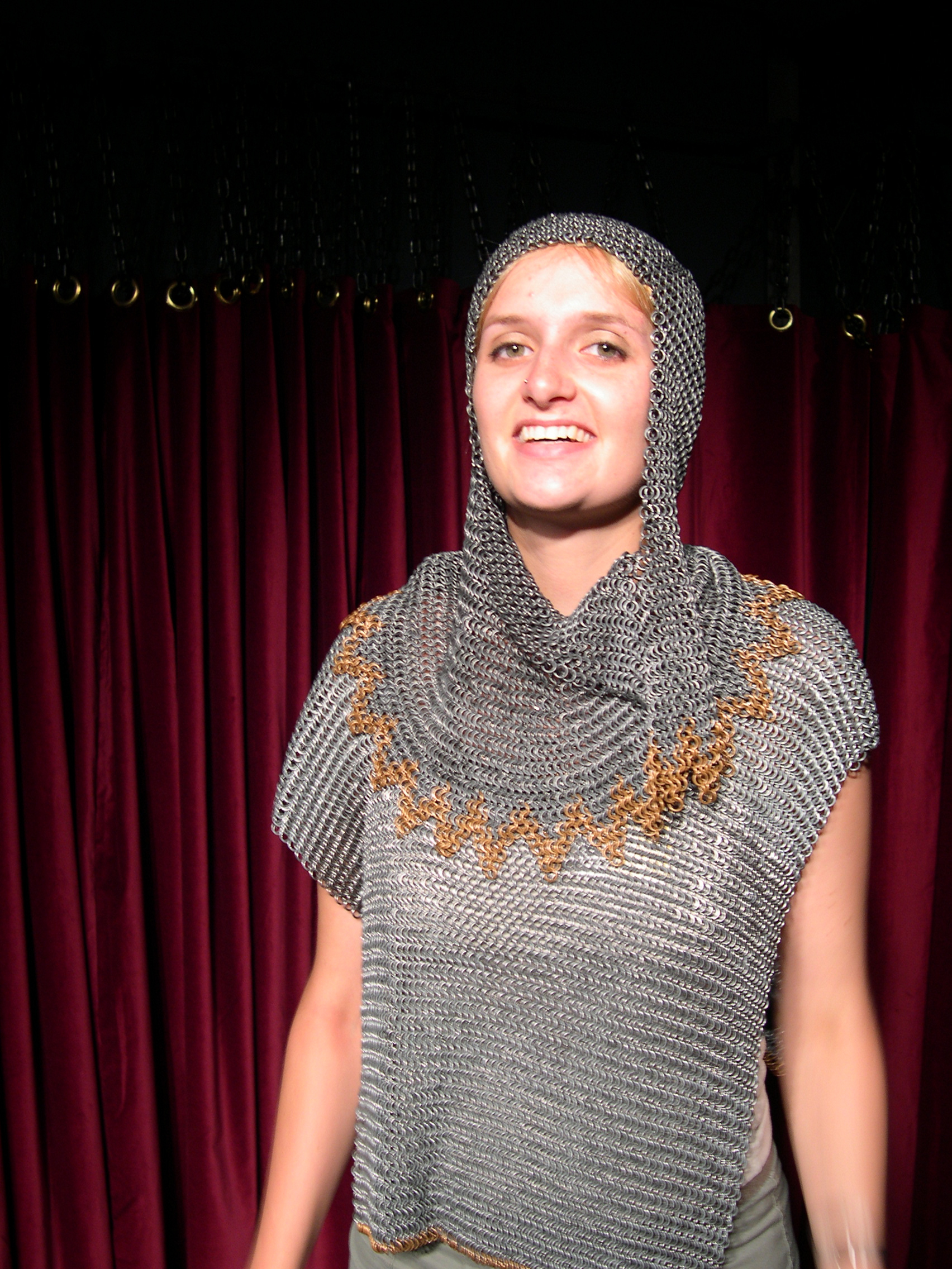 A woman models a haubergeon and coif of modern make.